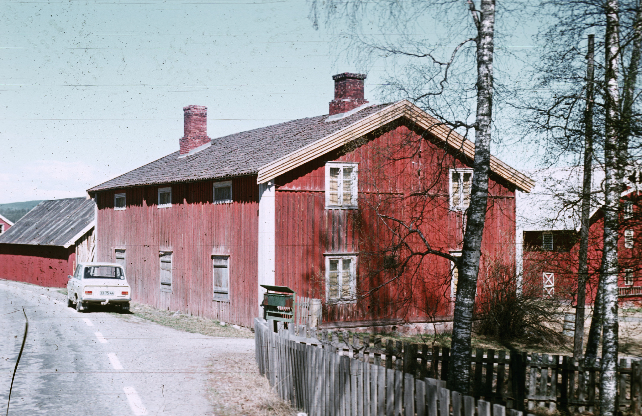 Borgstue ved Åmot prestegård, Rena. Ukjent fotograf, fra Riksantikvarens Kulturminnebilder.